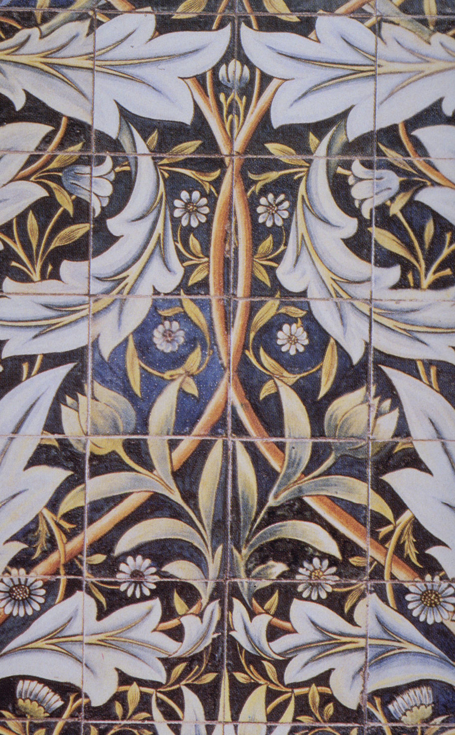 Portionof a panel of tiles designed by William Morris for Membland Hall and executed by William De Morgan, 1876. (Identification from Linda Parry, ed.: William Morris, Abrams, 1996, ISBN 0-8109-4282-8, p. 193 )